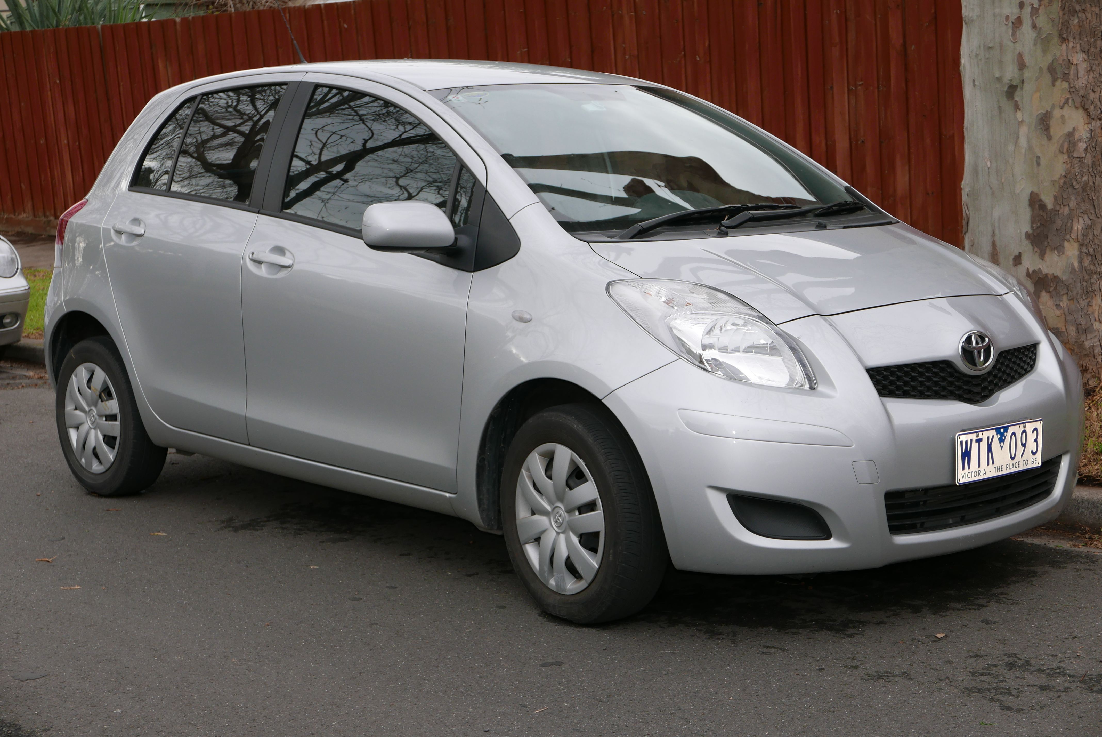 2008 Toyota Yaris (NCP90R MY09) YR 5-door hatchback. Photographed in Alphington, Victoria, Australia. Vehicle registration enquiry resultsJurisdictionVictoriaRegistrationWTK093Chassis codeJTDKW96300J007876Engine code2NZ5207702Compliance date2008-09Year of manufacture2008